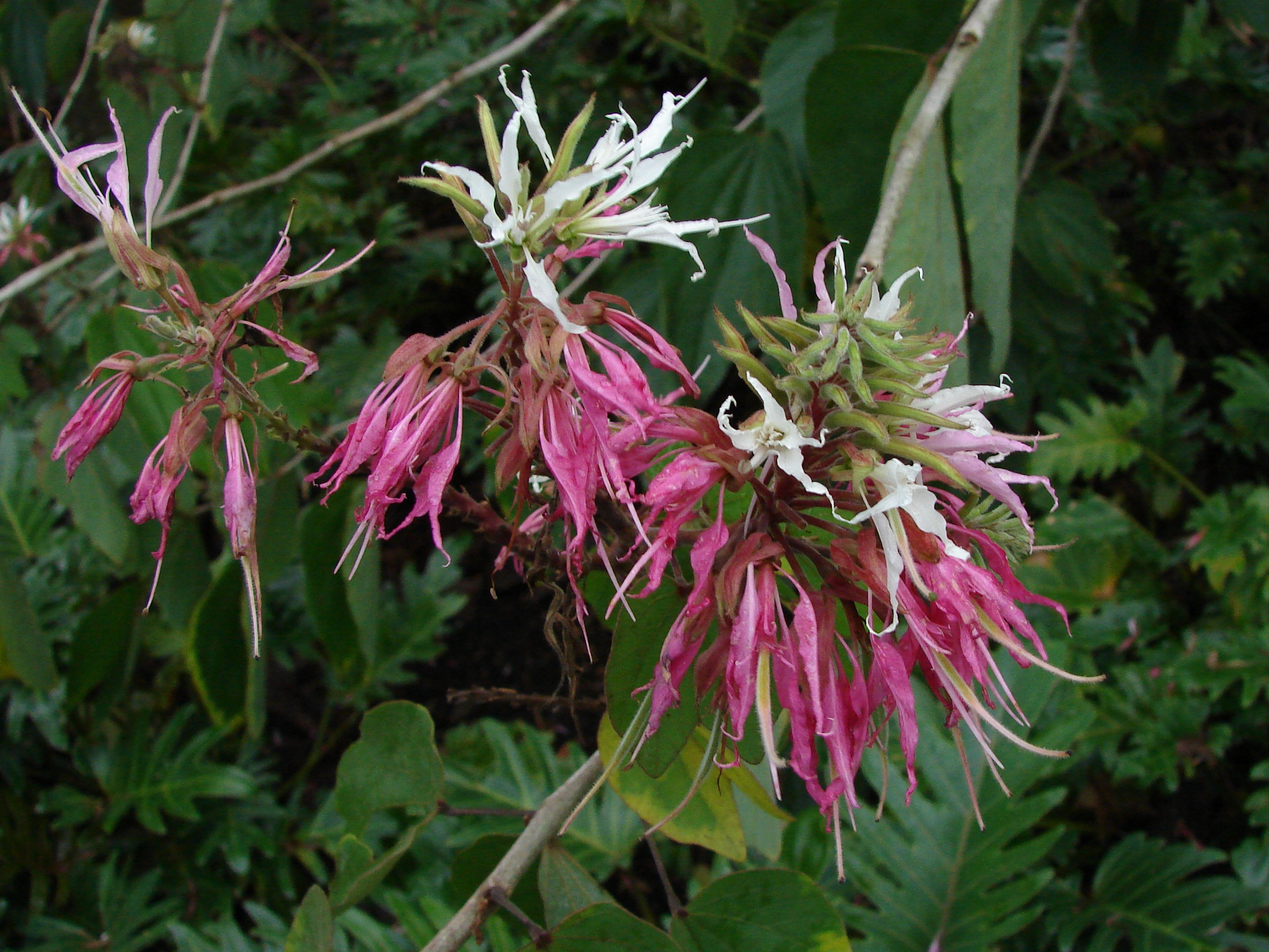 Cultivar "Purpurea" Brisbane Botanic Gardens.(Mt. Coot-tha)